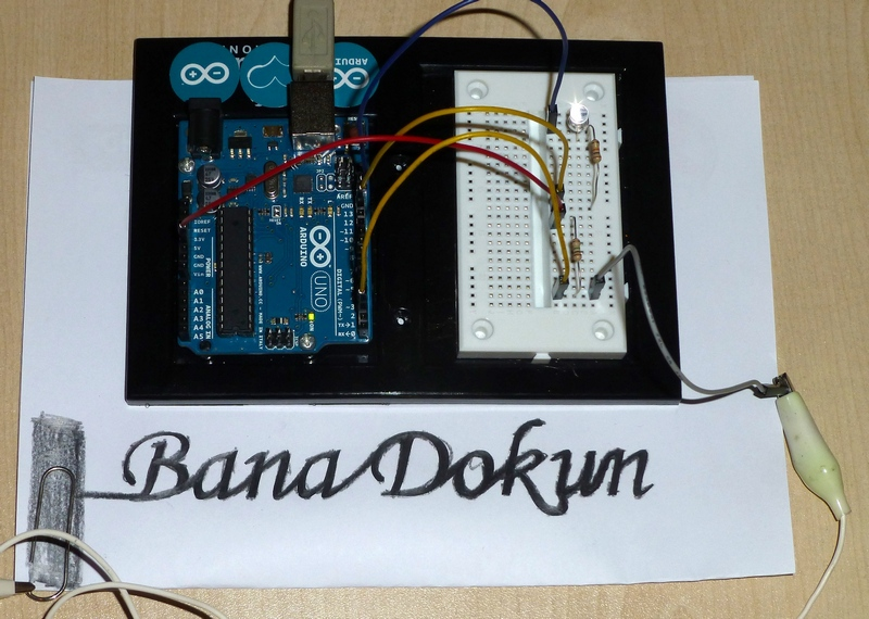 Arduino touch me project. LED lights up by touching the pencil script. CapacitiveSensor